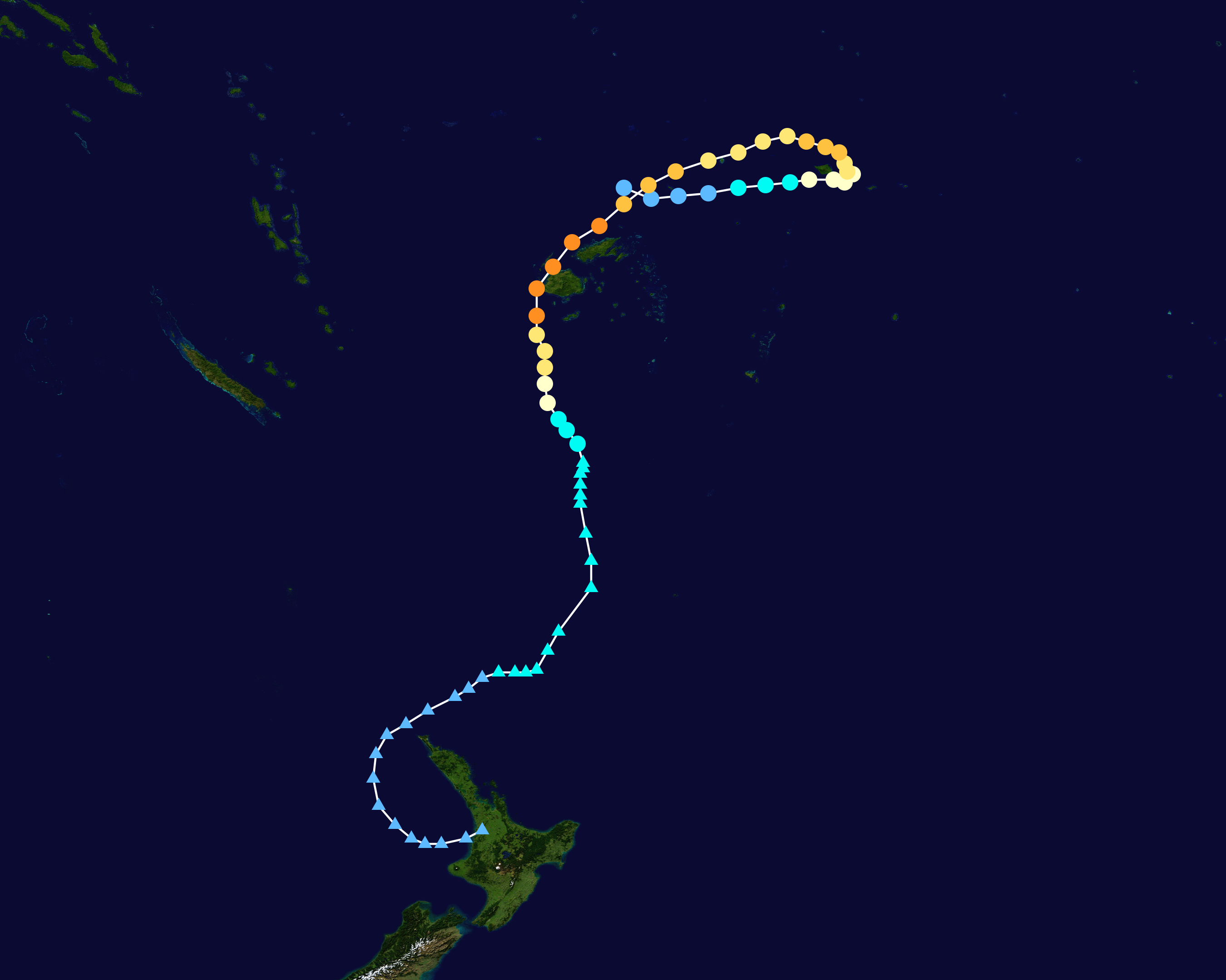 Track map of Severe Tropical Cyclone Evan of the 2012-13 South Pacific cyclone season. The points show the location of the storm at 6-hour intervals. The colour represents the storm's maximum sustained wind speeds as classified in the Saffir–Simpson scale (see below), and the shape of the data points represent the nature of the storm, according to the legend below. Saffir–Simpson scale Tropical depression≤38 mph≤62 km/h Category 3111–129 mph178–208 km/h Tropical storm39–73 mph63–118 km/h Category 4130–156 mph209–251 km/h Category 174–95 mph119–153 km/h Category 5≥157 mph≥252 km/h Category 296–110 mph154–177 km/h Unknown Storm type Tropical cyclone Subtropical cyclone Extratropical cyclone / Remnant low / Tropical disturbance / Monsoon depression